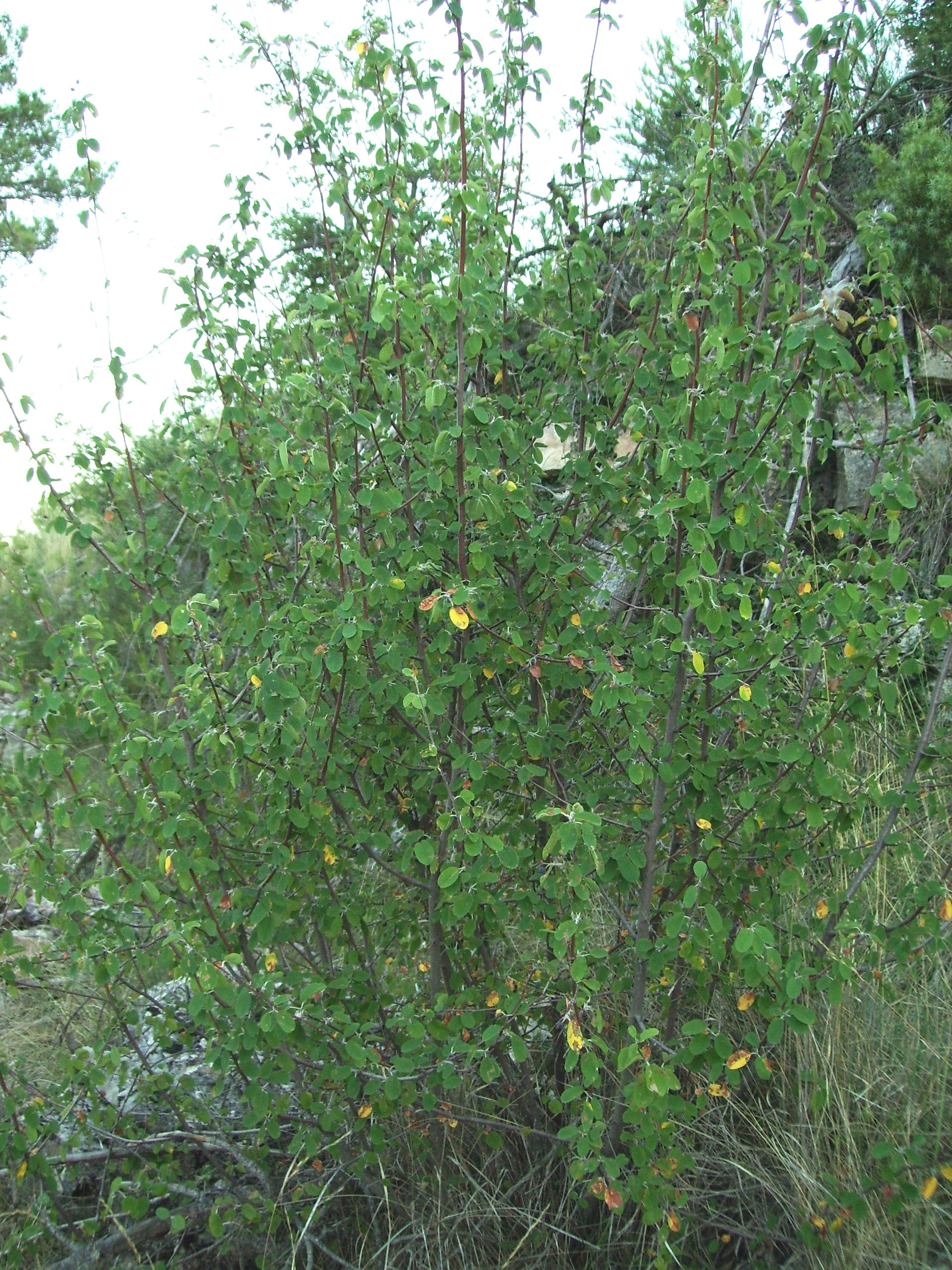 Amelanchier ovalis Amelanchier ovalis, corner at Castelltallat, Catalonia